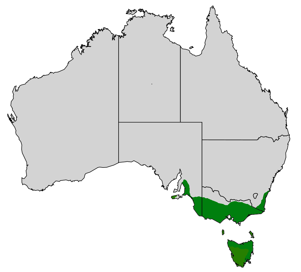 Range of Epacris impressa - map of Australia derived from File:Australia map, States.svg. Information derived from National Herbarium at here, with more specific details from NSW herbarium at here and SA herbarium at here